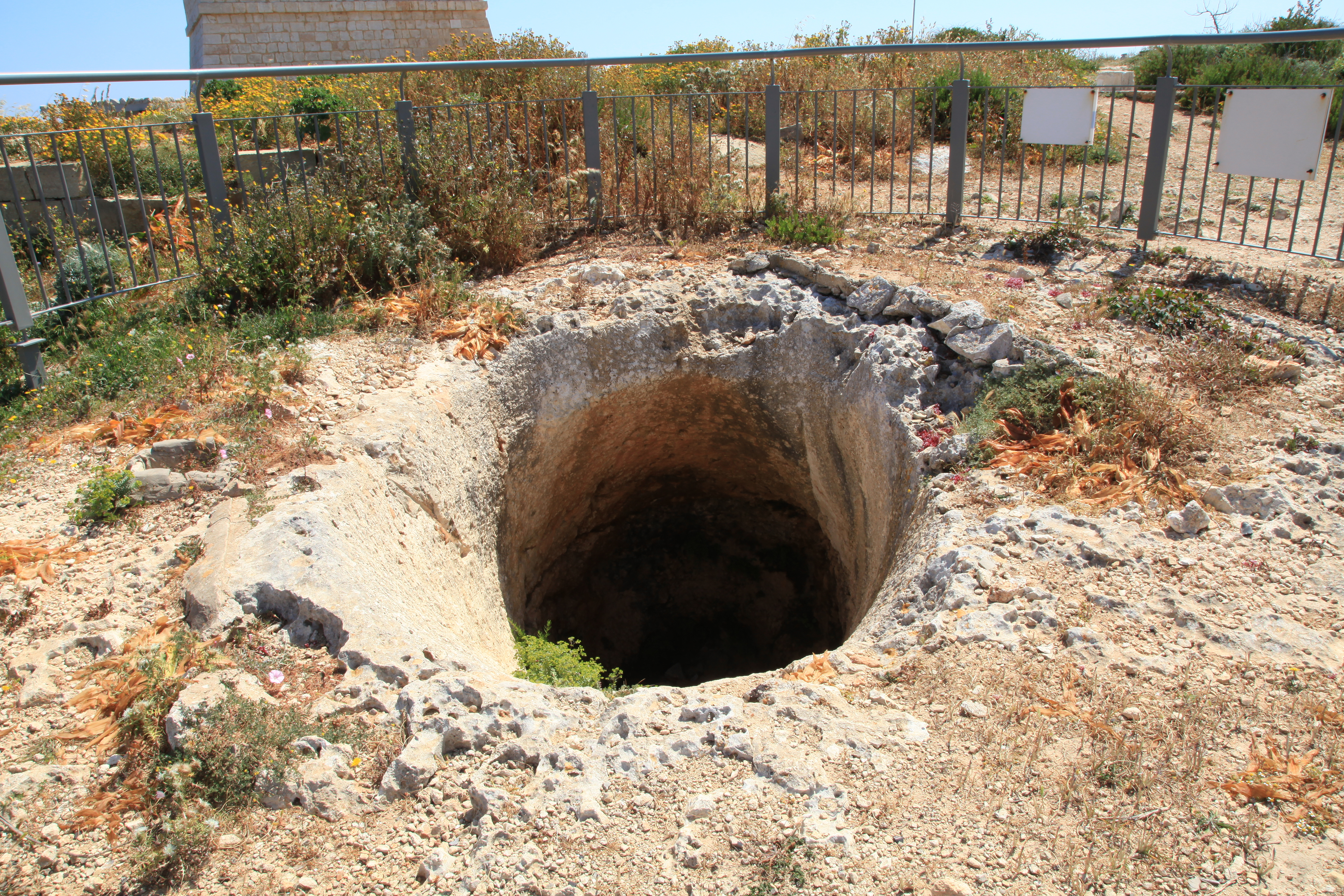 Madliena Fougasse close to the Madliena Tower at Triq Martin Luther King in Pembroke, Malta